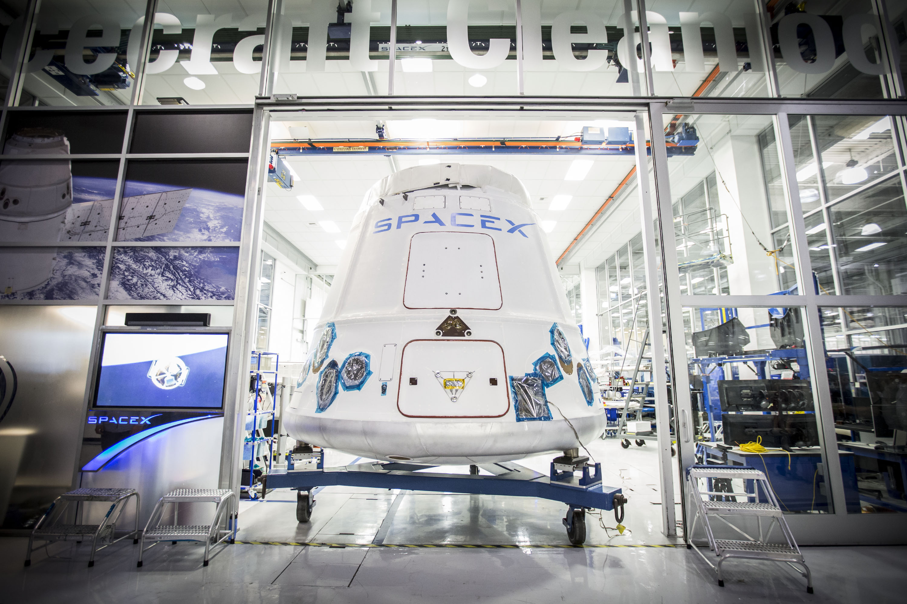 Dragon leaving SpaceX HQ in Hawthorne, California, February 23, 2015.